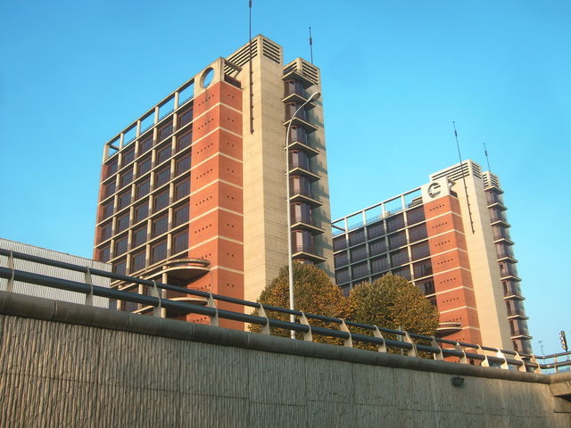 Towers of Errotaburu, Donostia. Gipuzkoa, Basque Country.